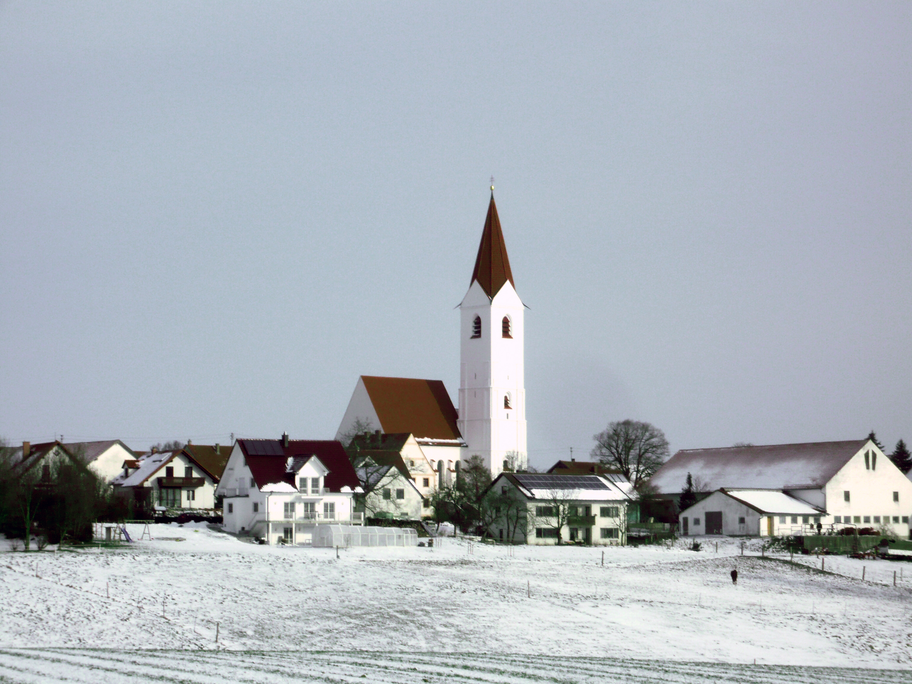 Johanneck (Paunzhausen near Freising, Germany), church